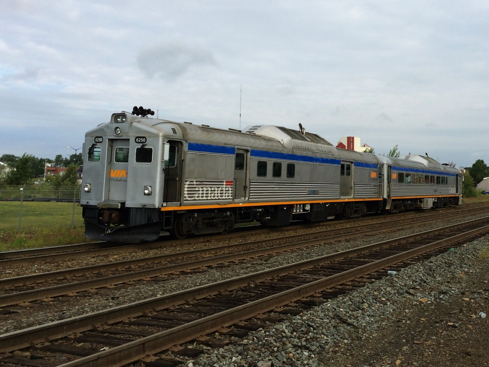 VIA 185 (Sudbury to White River) heads to the Sudbury station to pick up the northbound passengers on July 26, 2014.